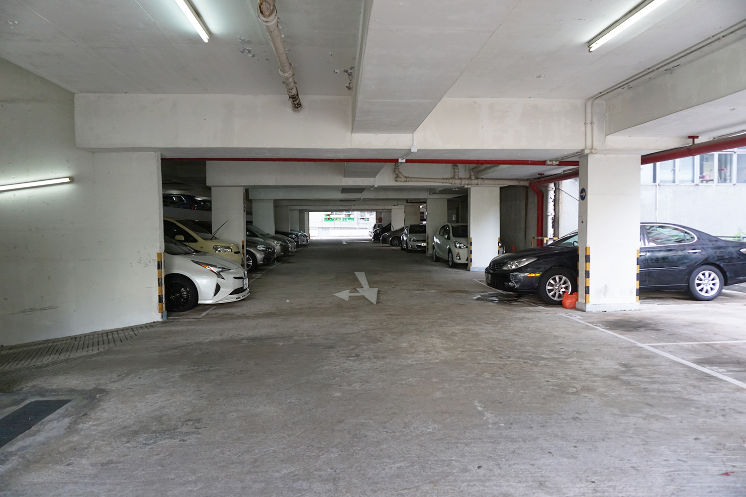 Kwun Tong Garden Estate in Ngau Tau Kok, Hong Kong.